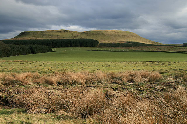 Farmland near Hazelberry The square consists of a mixture of rough grazing, improved grazing and some areas of Sitka plantations. Burnswark Hill is in the background.